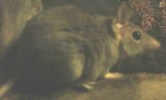 Fawn Antechinus (Antechinus bellus) in Territory Wildlife Park, Northern Territory, Australia